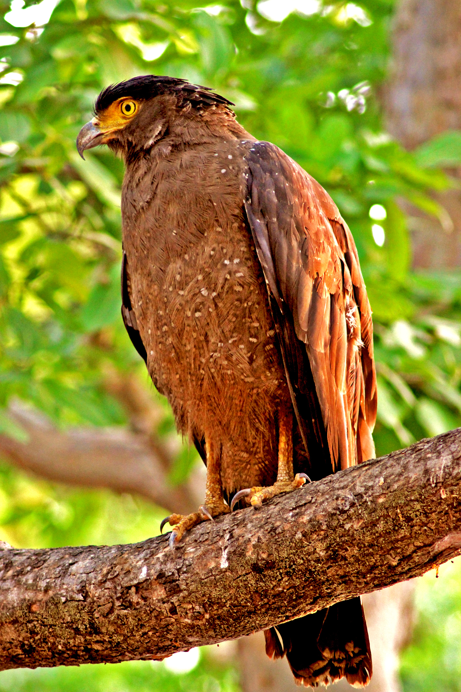 the photograph shows a crested serpent eagle atop a tree branch just 10 ft away from us.